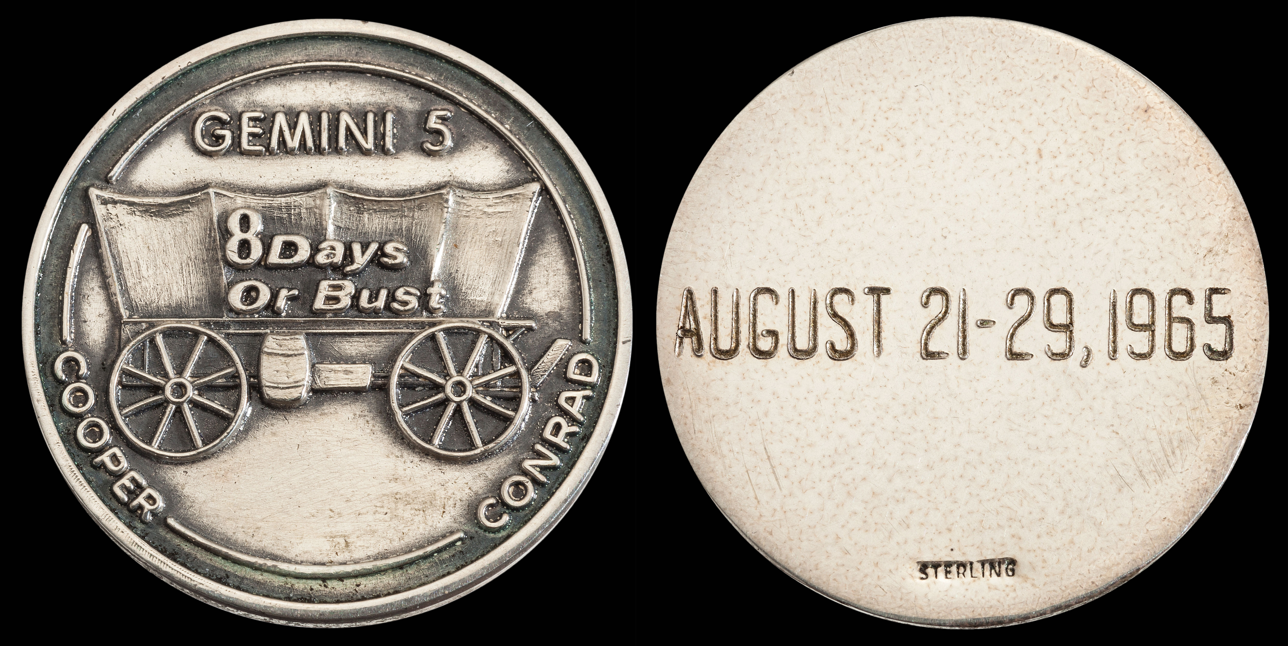 Gemini 5 Flown Silver Fliteline Medallion(6103-40063)